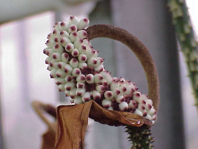 Species: Anchomanes giganteus Family: Araceae Image No. 4